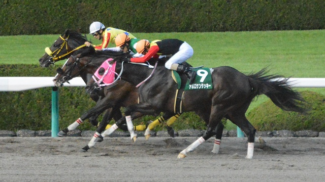 Japanese race horse Mask Zorro at Hanshin racecourse. Hanshin (JPN) 1 Oct 2016Sirius Stakes (Grade 3 Handicap) (3yo+) (Dirt) 1m2f Standard RankHorse NameOddsAgeWgtJockeyTrainer1stMask Zorro (USA)13/5FH58-11Shinichiro AkiyamaInao Okada2ndPionero (JPN)29/10H58-11Yuichi FukunagaMikio MatsunagaOthers are omitted. (11 horses entered in a race.)